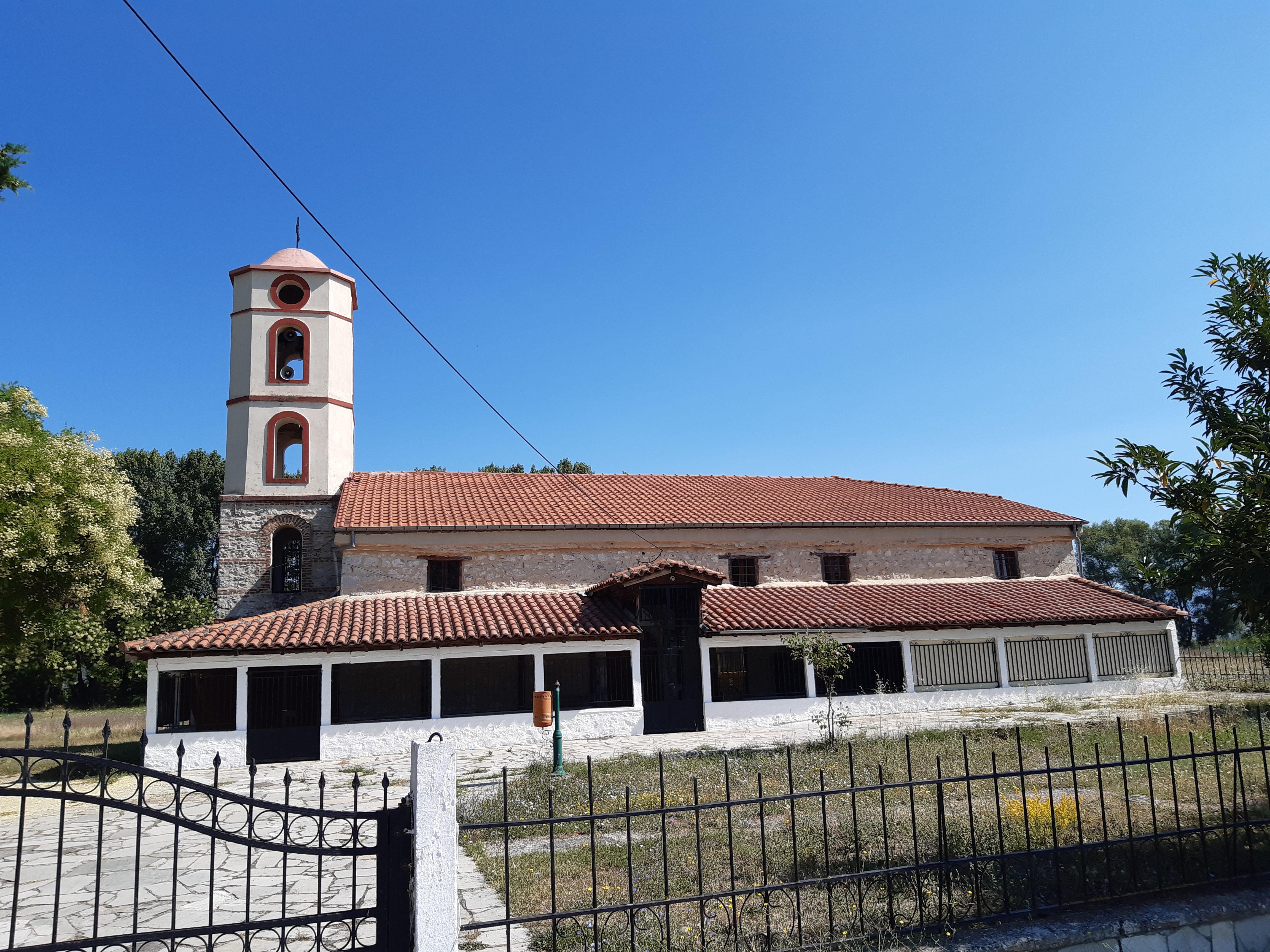 Ascencion of Jesus Church in Dupyak Dispilio in August 2020